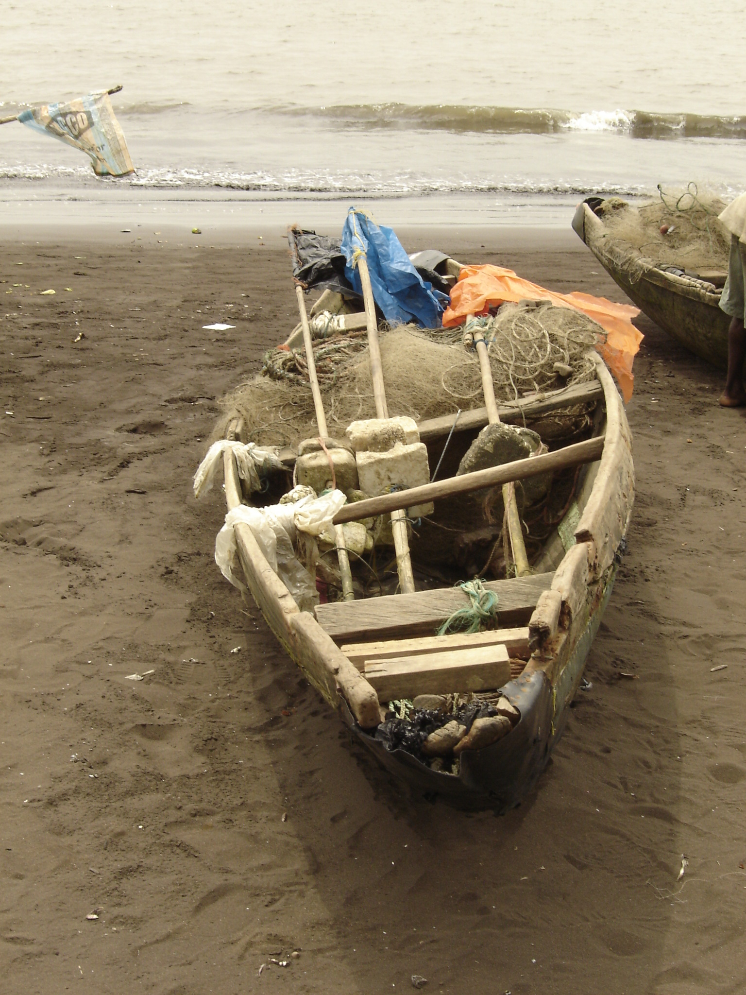 Fishing boat at Cameroon, Africa. Barracuda and small shark are caught from this boat.